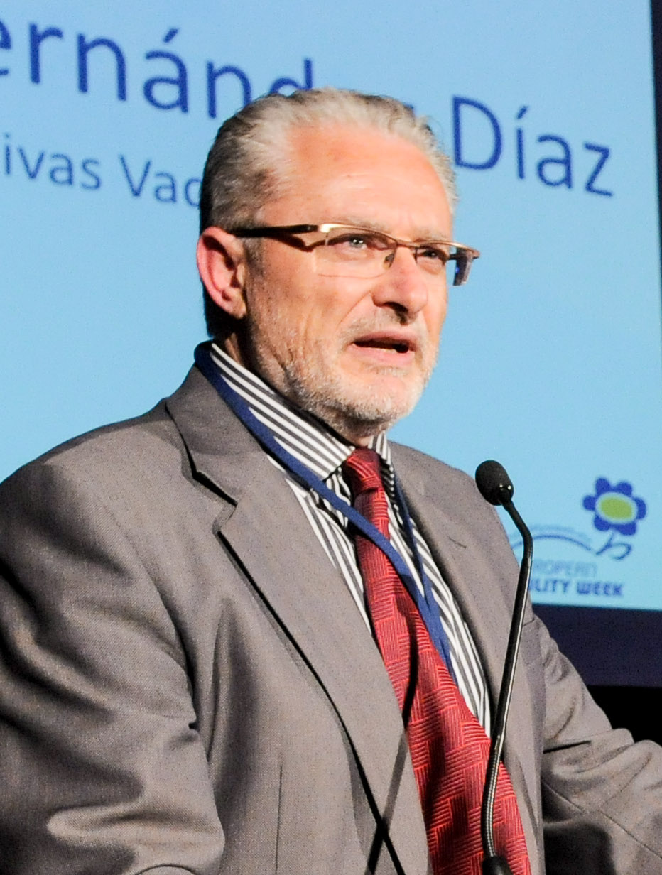 Mayor of Rivas Vaciamadrid gives his acceptance speech